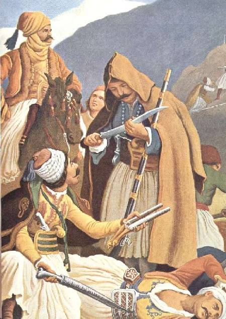 The Battle of Arachova, painting by Peter von Hess